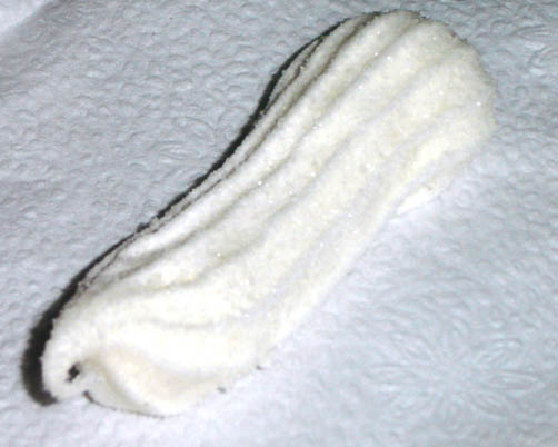 Description: maria mole dessert picture, taken by user Carioca License: GFDL